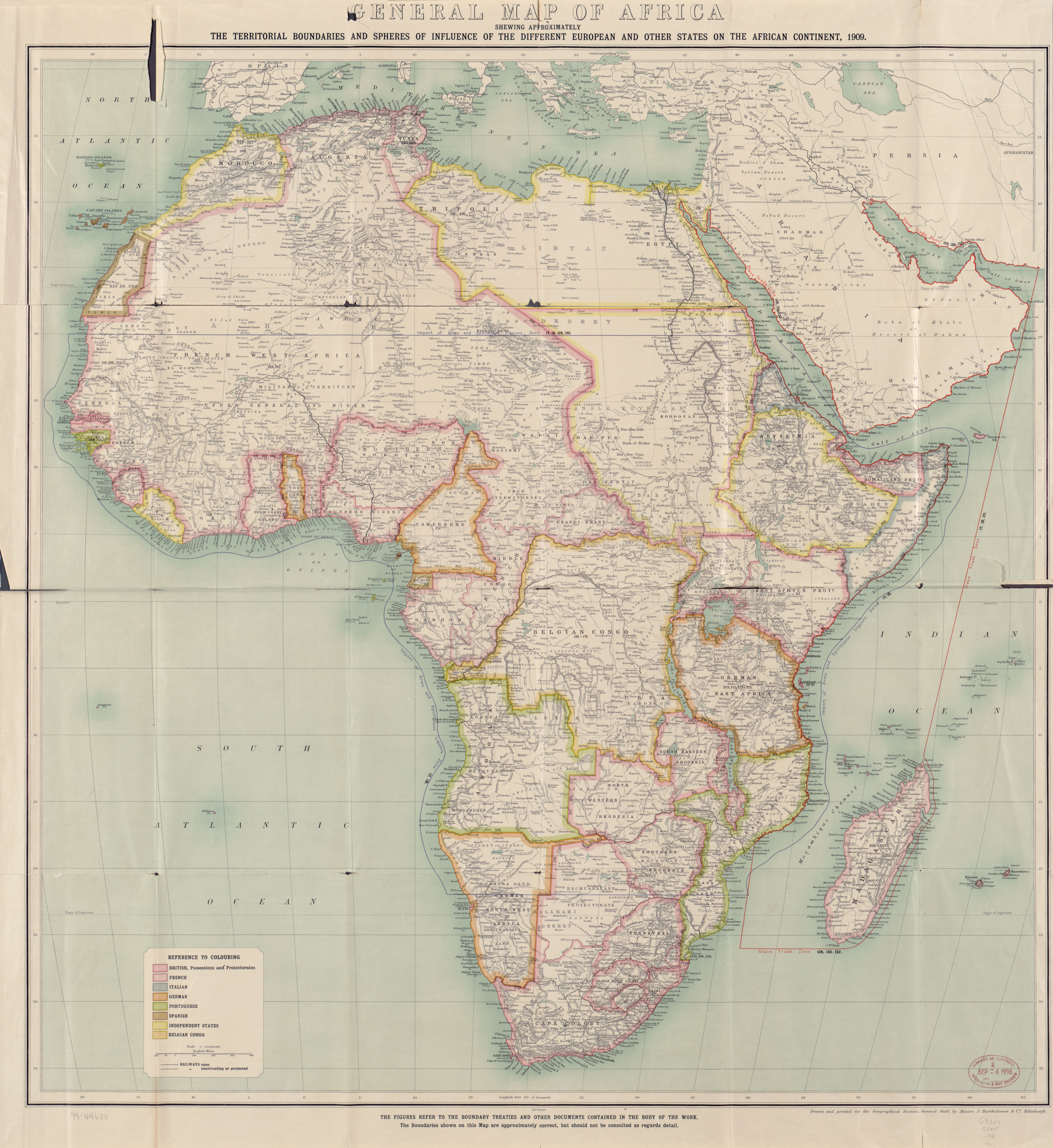 Map of Africa by the late Sir E. Hertslet, 3d ed., printed for H. M. Stationery off., by Harrison and sons, 1909. Note on verso: Although assistance is given towards this compilation from public funds on the ground of its general utility, it must be understood that it is not an official publication